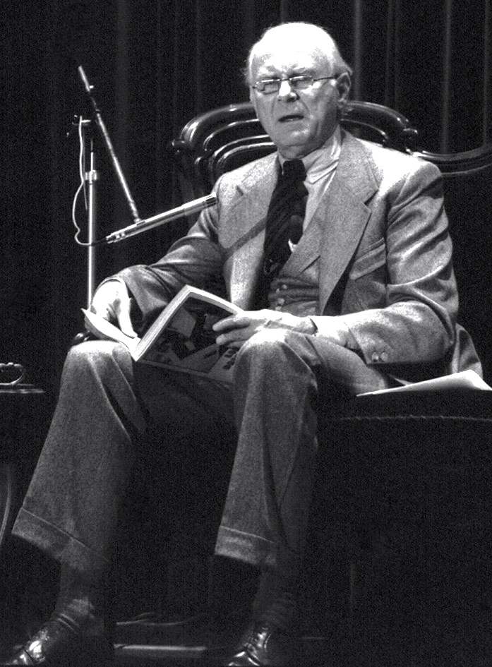 German humorist Vicco von Bülow (alias Loriot) in the early 1980s during a reading of Loriots dramatische Werke in Dortmund.